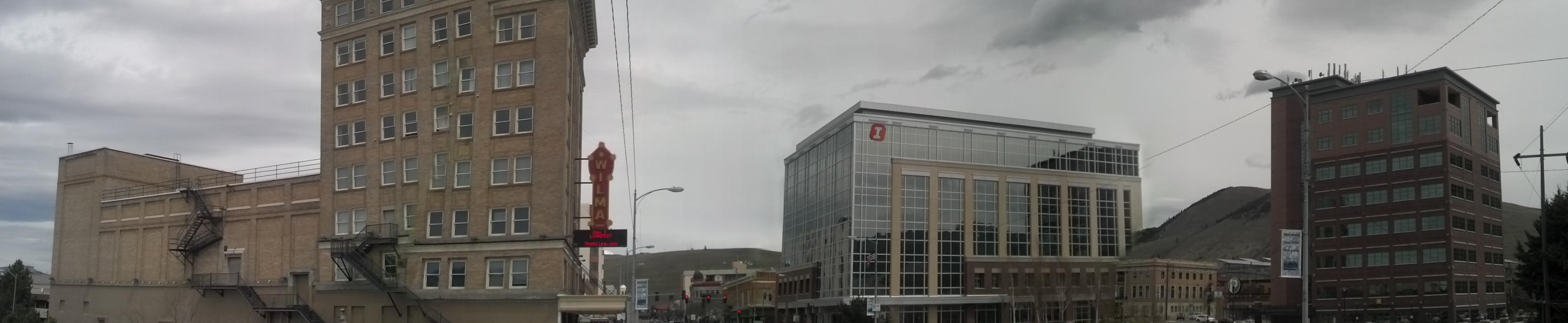 A picture looking towards central Downtown Missoula